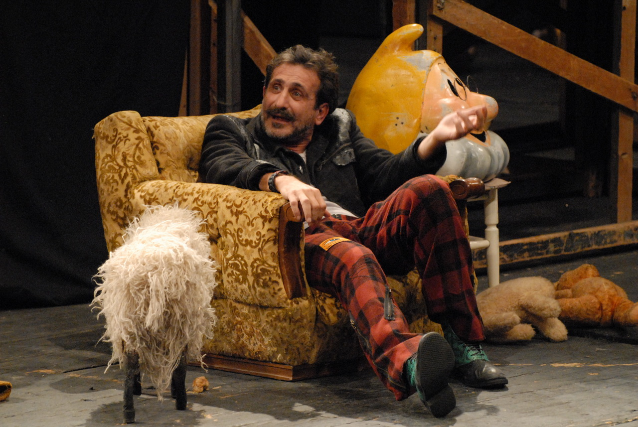 "Doll Ship" written by Milena Marković, directed by Ana Tomović, Drama of SNT, Novi Sad, 2008/09; Radoje Čupić Srpski (latinica): "Brod za lutke" Milene Marković u režiji Ane Tomović, Drama SNP-a, Novi Sad, 2008/09; Radoje Čupić Српски (ћирилица): "Брод за лутке" Милене Марковић у режији Ане Томовић, Драма СНП-а, Нови Сад, 2008/09; Радоје Чупић